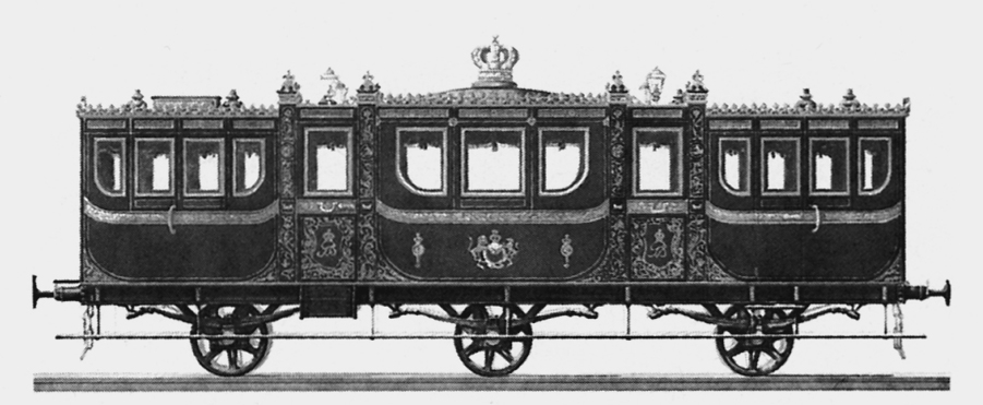 Railway carriage of George V of Hanover.